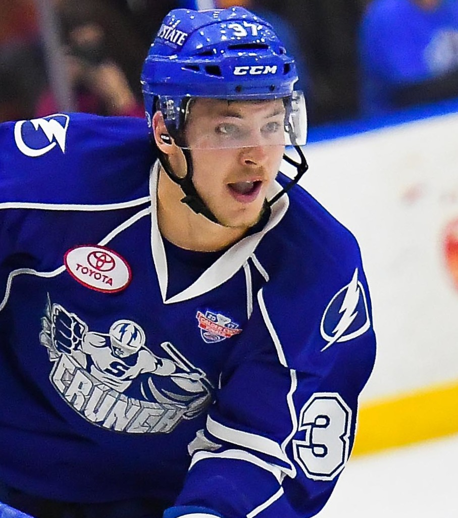 Photo: Scott Thomas